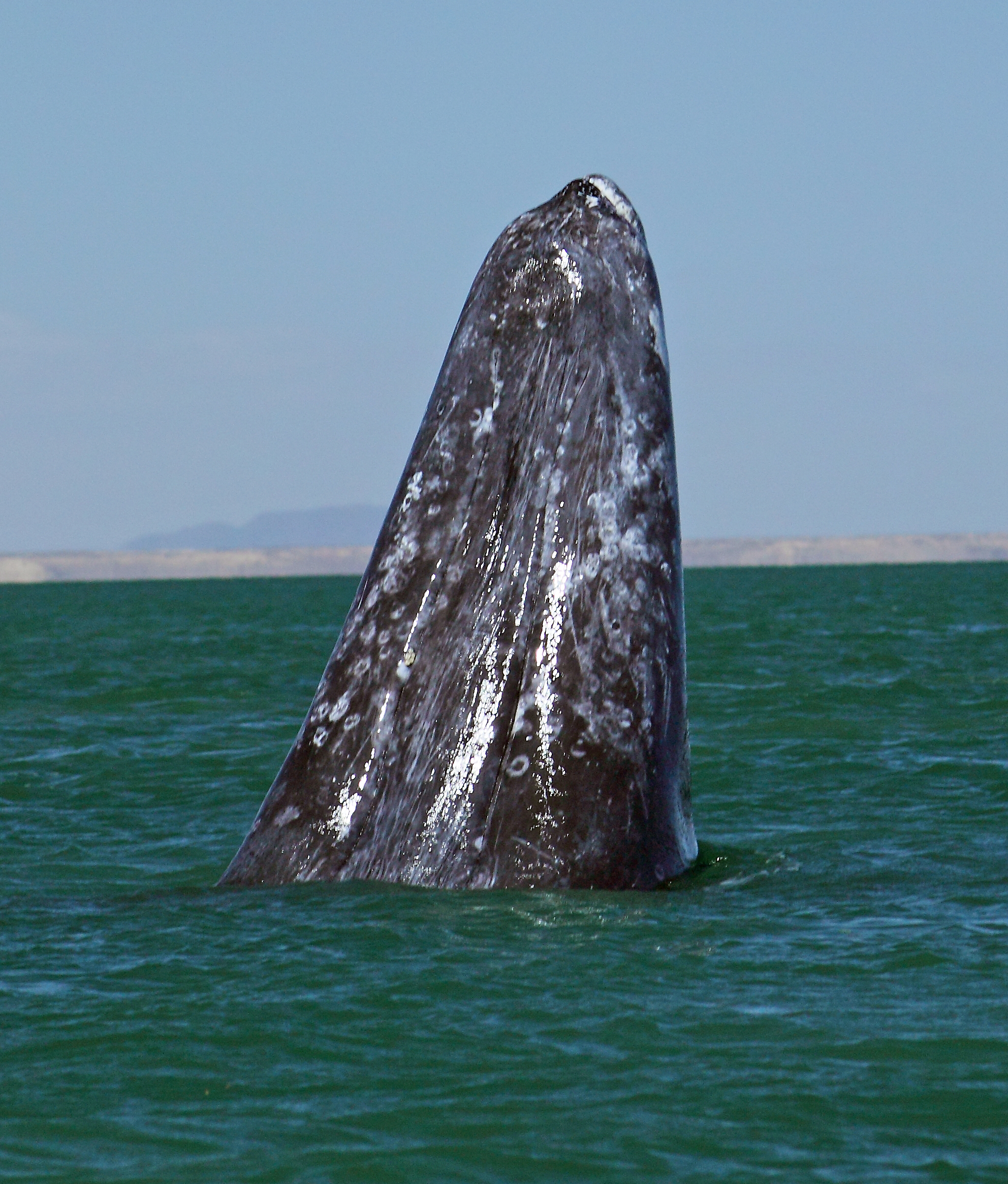 Eschrichtius robustus — Pacific gray whale. Photo taken in San Ignacio Lagoon, Baja California Sur, Mexico. "Yes another spy hop picture. How cool is that? You can see the pleats in the throat of the whale that expand when it takes a big mouthful of mud and water during feeding."